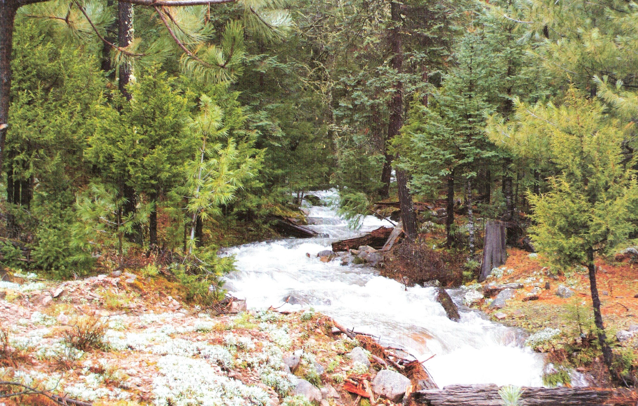 ARROYO DEL SOLDADO, MUNICIPIO DE GUADALUPE Y CALVO, CHIHUAHUA. CRISTALINAS AGUAS ENMARCADAS POR INIGUALABLE VEGETACION Y BELLEZAS NATURALES (INFORMACION PROPORCIONADA POR LUIS ALFONSO URIBE SAAVEDRA, PONCHIN)